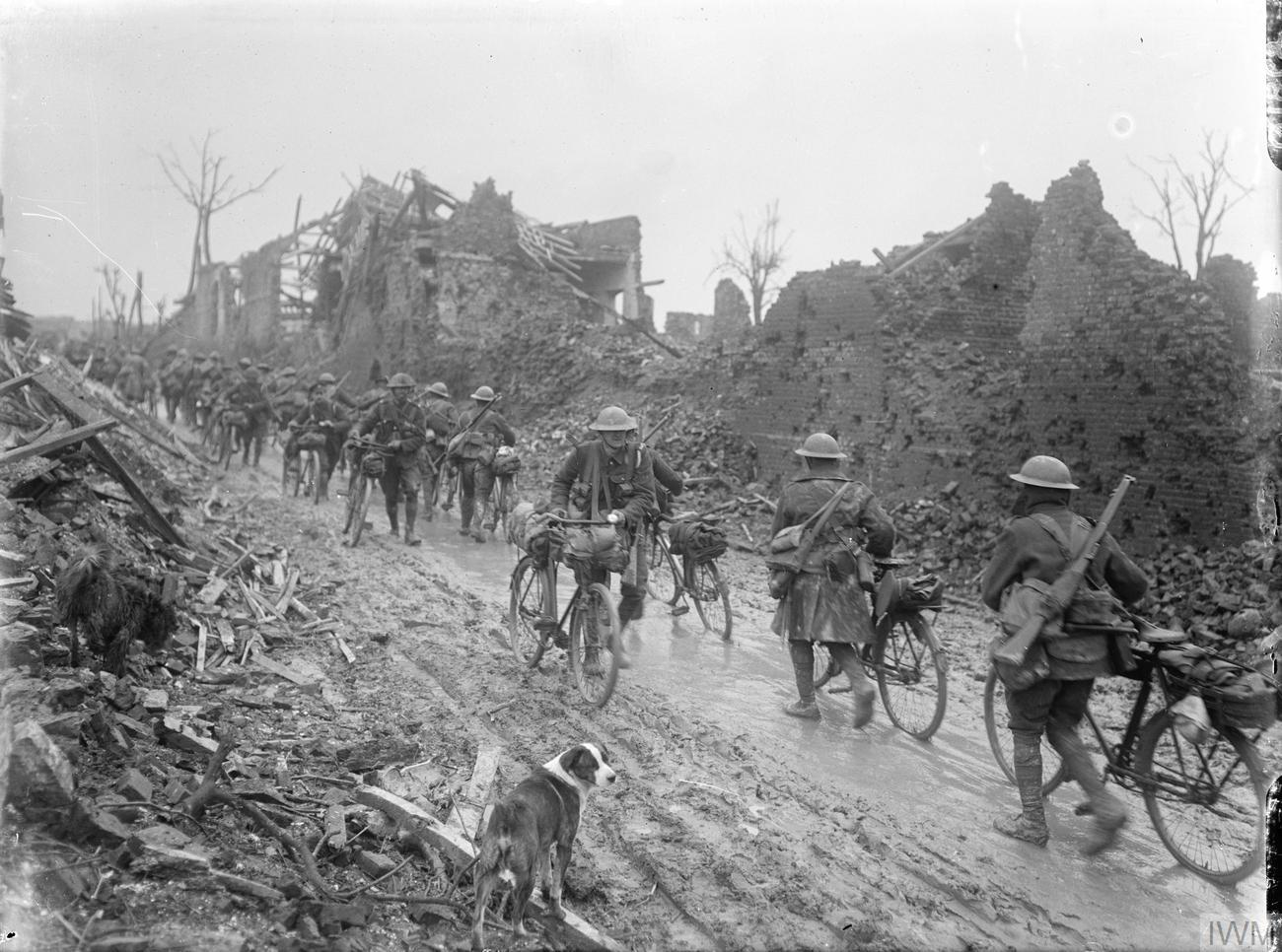 German withdrawal to the Hindenburg Line. British cyclists passing through the ruined village of Brie, Somme, France.